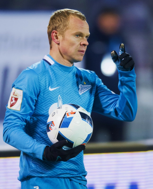 Alexandr Anyukov